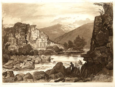 Roebrook from Langermarsh, the property of Sir B.Wrey, Bart. Part of the Wrey family's manor of Holne, on the River Dart, Devonshire. Drawn & engraved in 1820 published in London in 1821 by Frederick Christian Lewis (1779–1856) as "Scenery of the River Dart".